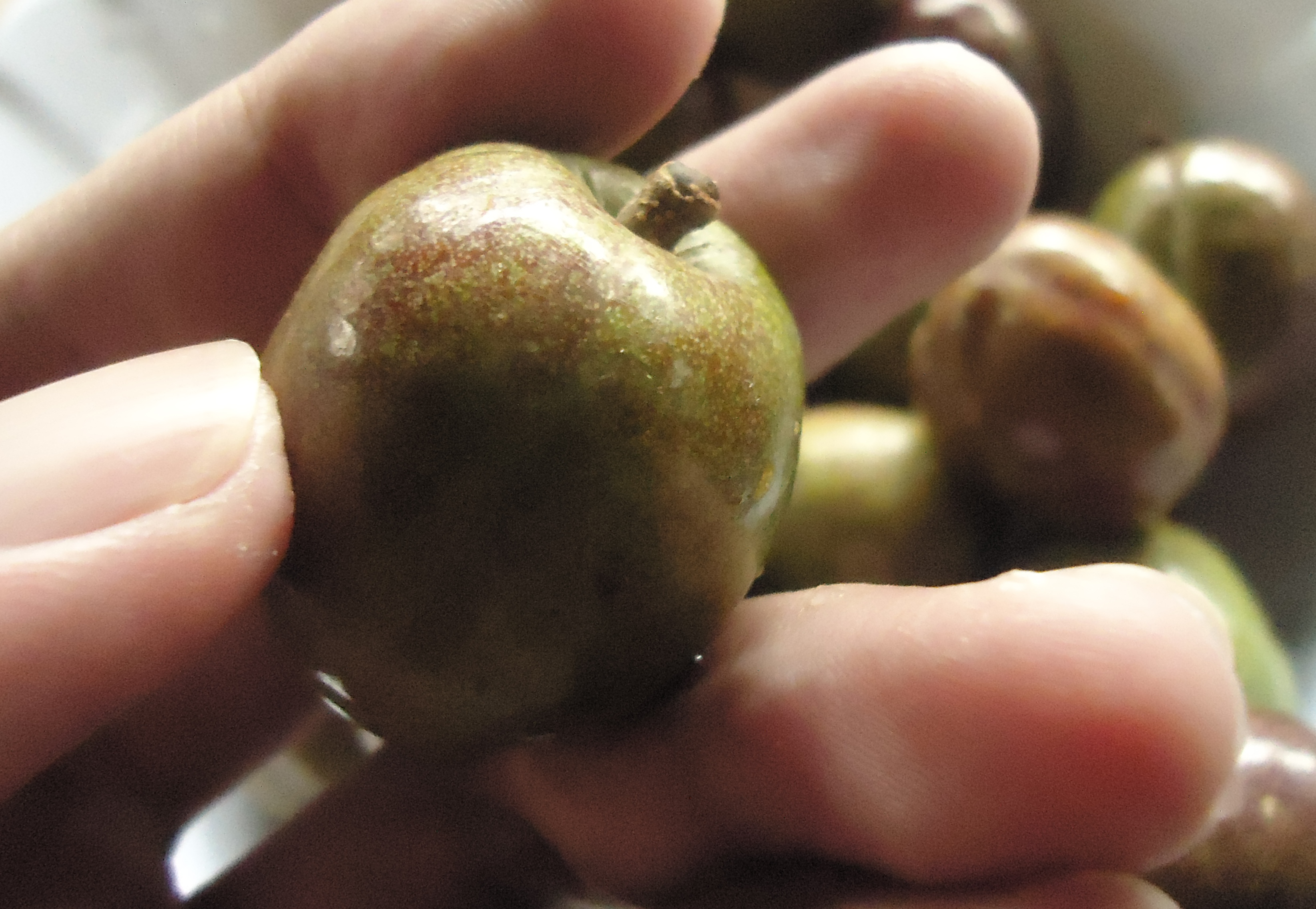 Spanish plum (Spondias purpurea), locally known as siniguelas, sirigwelas, serigwelas, sinigwelas, etc. Mindanao, Philippines